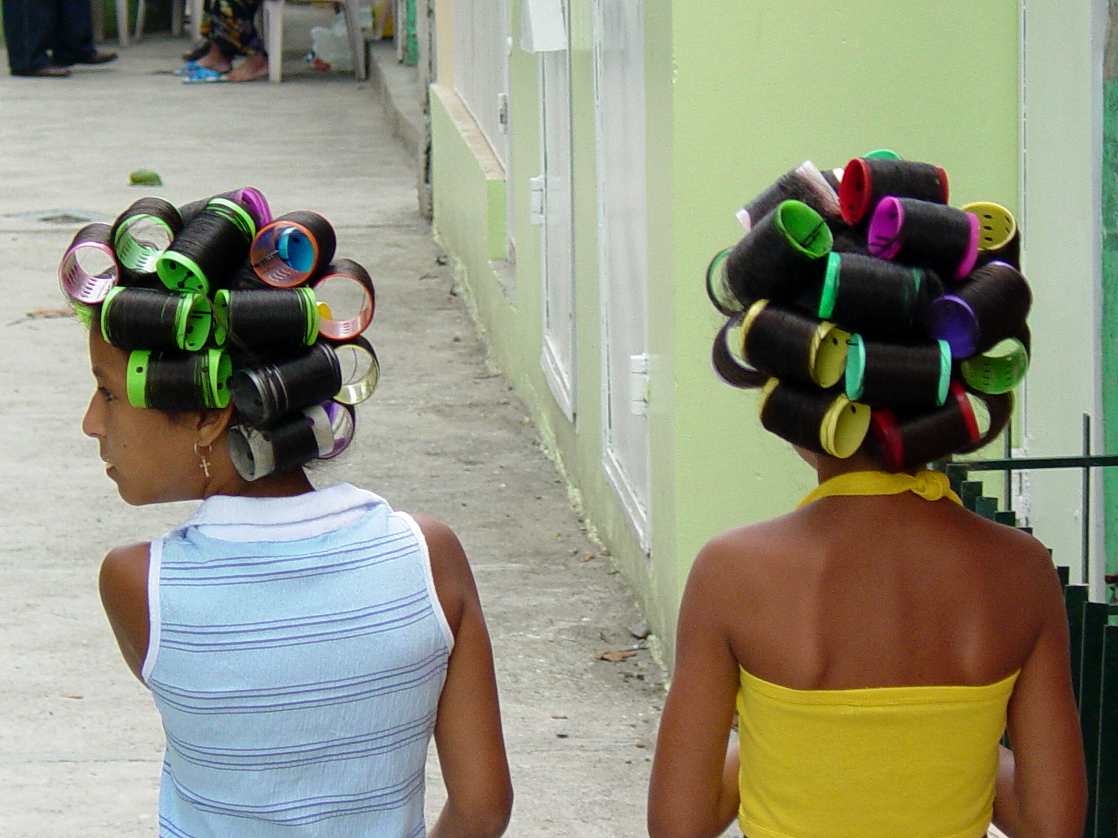 Two Young Girls with Hair Curlers - San Jose de Ocoa - Dominican Republic